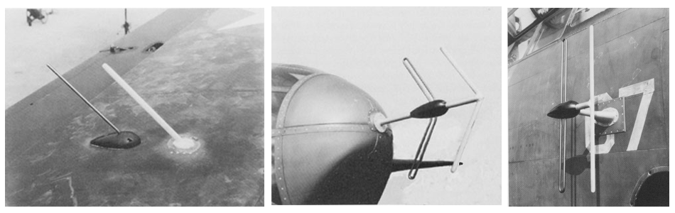 This set of three images shows the three types of antennas used on the SCR-540 radar set as installed on an A-20, the P-70 prototype. This was the US copy of the UK's AI Mk. IV radar, the first airborne radar system for fighters, and the second airborne radar to enter service. It is predated only by months by the ASV Mk. I, developed using the same electronics as this set. There is a possibility that this is in fact a "real" AI Mk. IV, and not the -540, as one example is described by Bowen on page 179 of Radar Days as being fit to an A-20 for testing. The radar signal was sent from the arrowhead antenna seen in the center frame, filling the space in front of the aircraft like a floodlight. Reflections from targets were receive on a set of four antennas, two of which are shown in the left and right frames. The left frame is one of the two vertical antennas mounted on top of the wing, the other would normally be located directly below it. The right frame shows one of two horizontal antennas mounted to the left side of fuselage, its partner would be directly opposite it on the right side. A motorised switch, inside the aircraft, quickly sent the signal from each of these antennas to the display screens. The left and right antennas to one, the upper and lower to another. By comparing the signal strength between the two antennas in a pair, the operator could determine if the target was more aligned with one than the other. For instance, if the signal was stronger on the left side of the horizontal display, the target was located to the left. Each antenna consists of a half-wave dipole with an associated director or reflector. The passive directors are easily seen as the white rods in these images. The angle of the vertical receivers matches the bend in the transmitter, which was introduced to improve the vertical sensitivity of the otherwise vertically oriented signal.